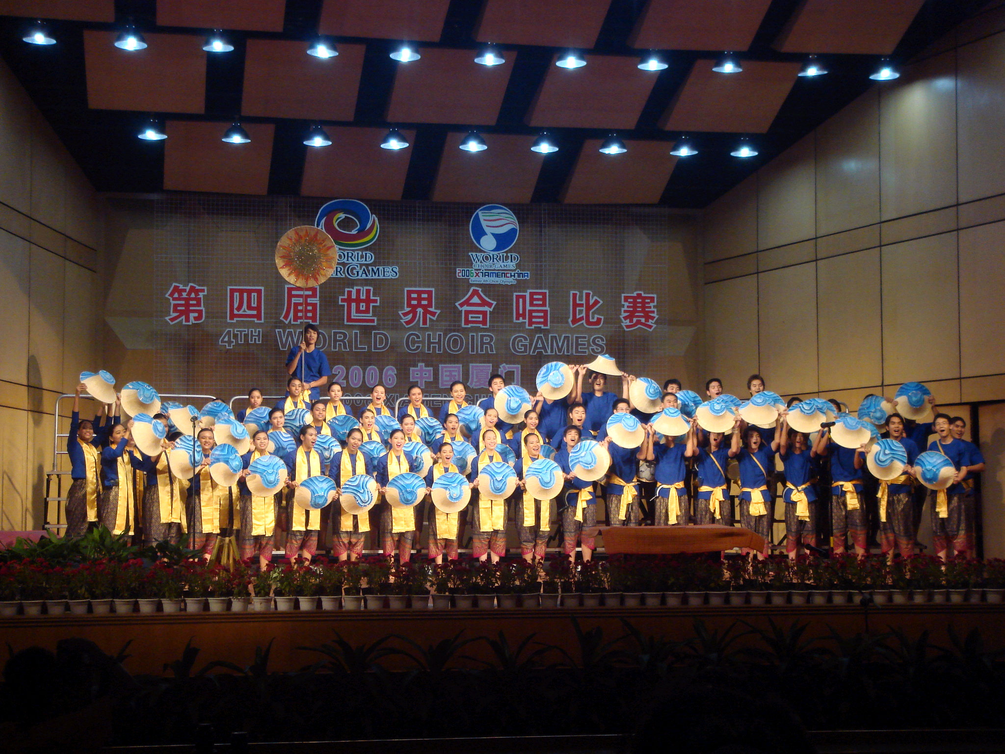 Saint John's Choir's performance at Xiamen Choir Games 2006